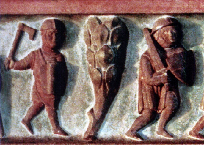 Lithuanians fighting Teutonic Knights.Evolvent of relief.